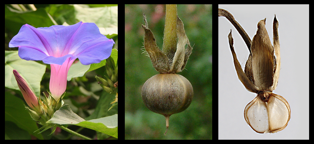 Plant - Bindweed - Ipomoea purpurea